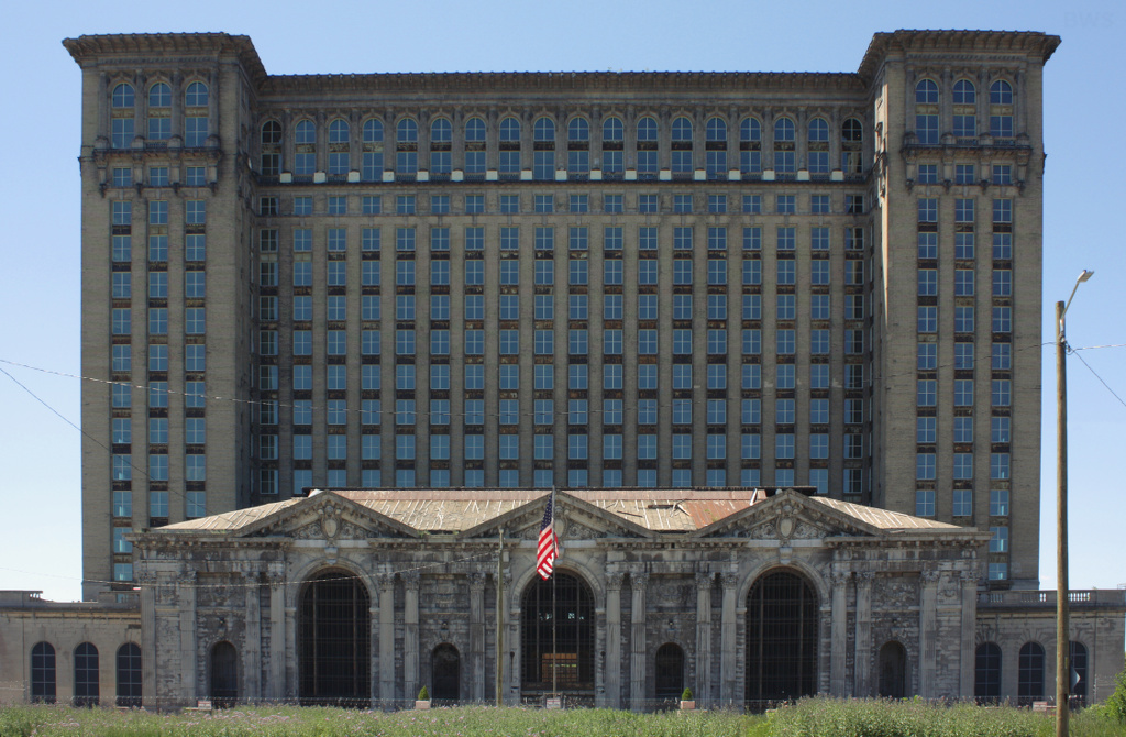 Michigan Central Station, Detroit, Michigan, U.S.